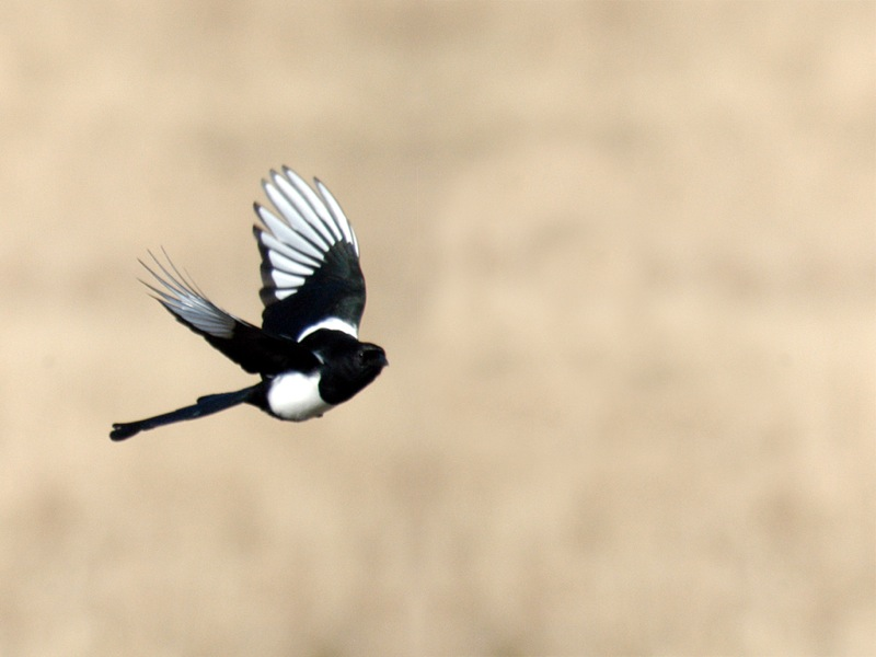 Black-billed Magpie (Pica hudsonia) in flight.